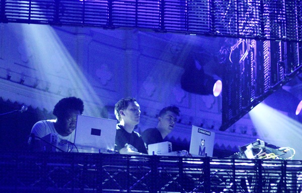 Magnetic Man Skream Benga Artwork Paradiso Oi! Amsterdam Dance Event El Gingo Visuals